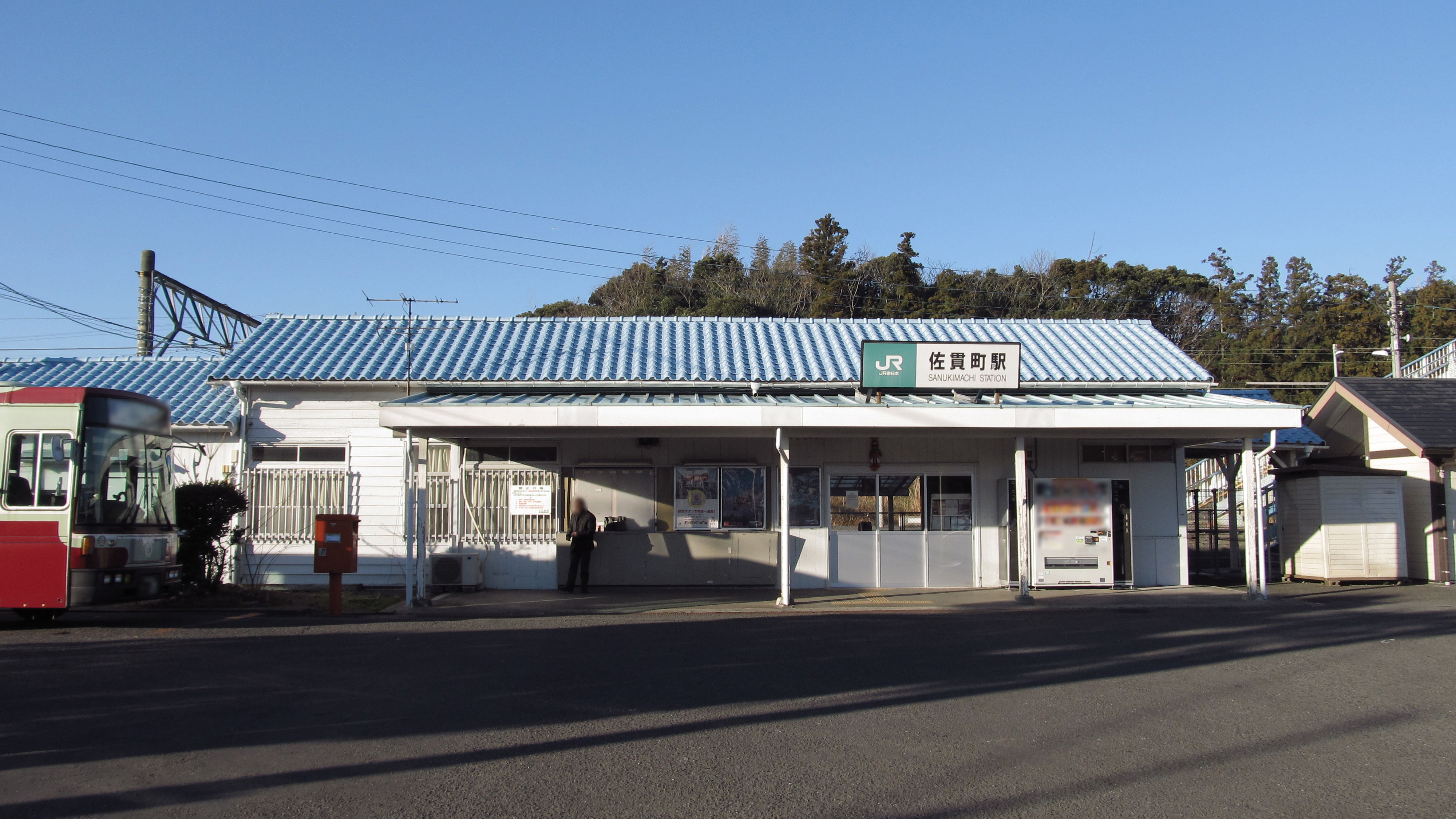 The building of Sanukimachi Station on the Uchibō Line in Futtsu city, Chiba prefecture, Japan